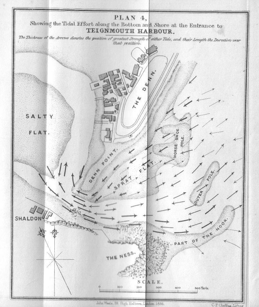 Another stage in the cycle of the movements of the sand bars at Teignmouth